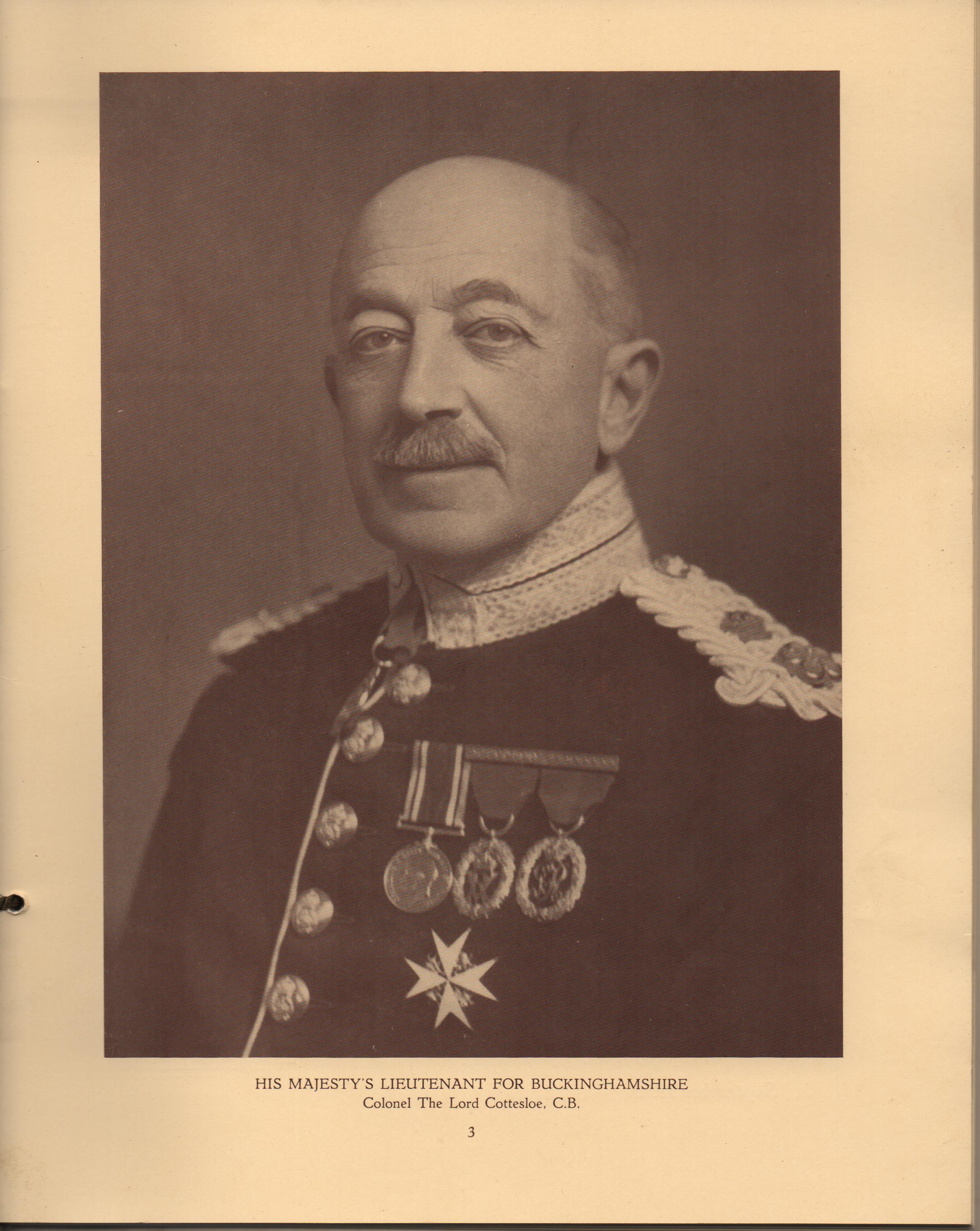 Scan from the first picture page of the 1938 Slough Charter of Incorporation